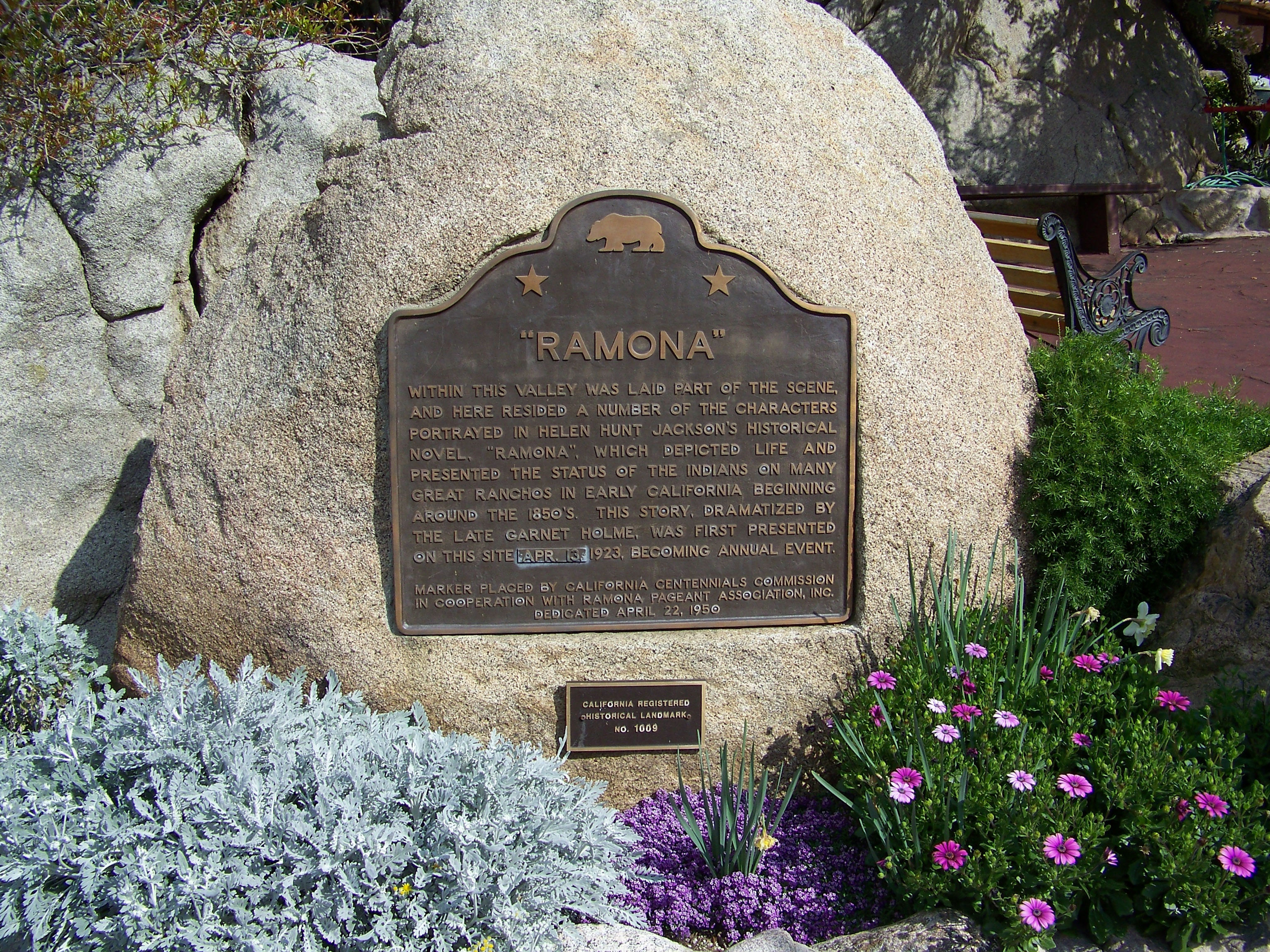 California Landmark Ramona No.1009